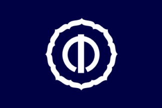 Flag of Kamo Niigata